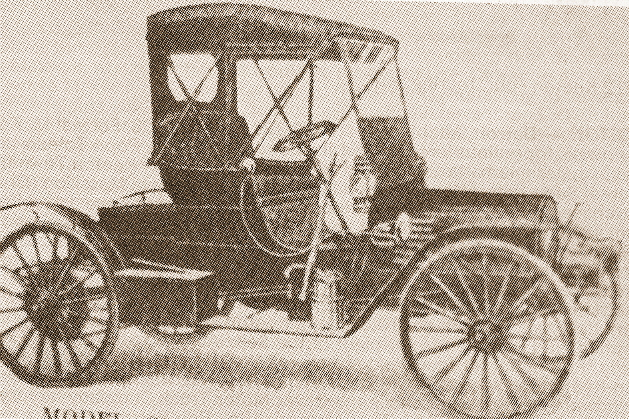 1913 Kearns Senior Surrey